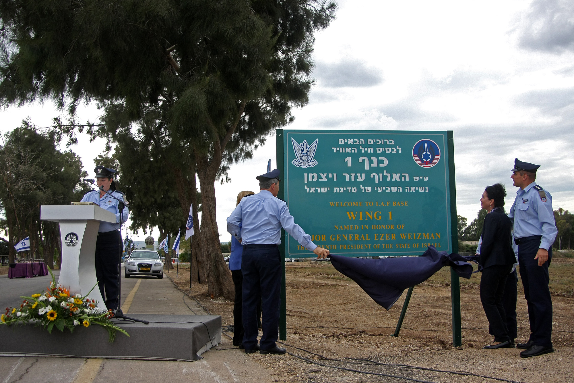 October 30, 2011 Today, the Israel Air Force Base at Ramat David was named after former president and IAF commander, the late Ezer Weizman. The ceremony was attended by the Commander of the Israel Defense Forces, Maj. Gen. Ido Nechushtan, former commanders of the IAF and Mr. Weizman's family. Photo by IDF Spokesperson Unit. The Israel Defense Forces Facebook page The Israel Defense Forces blog Follow us on Twitter